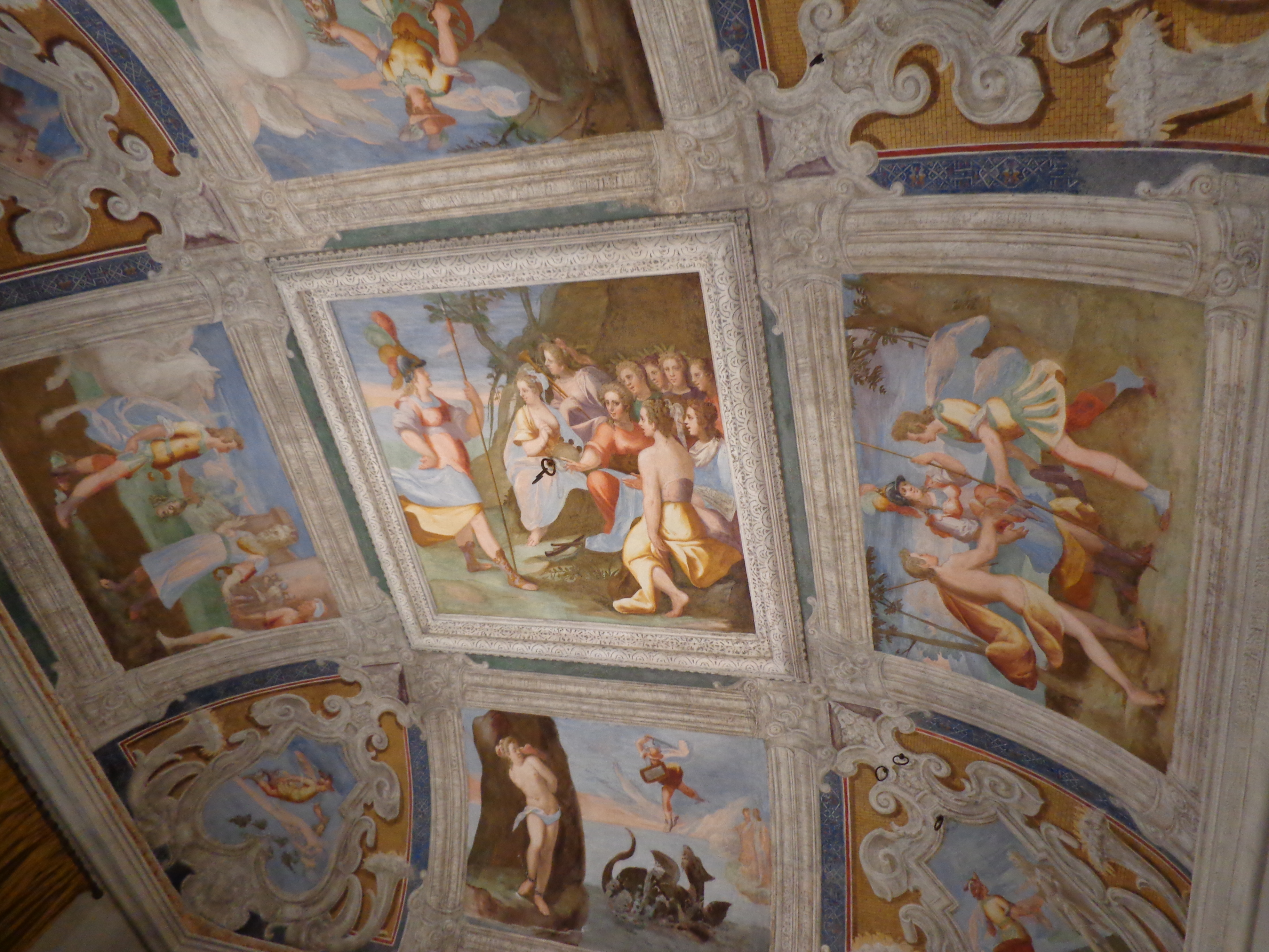 Palace Ambrogio Di Negro, Genoa